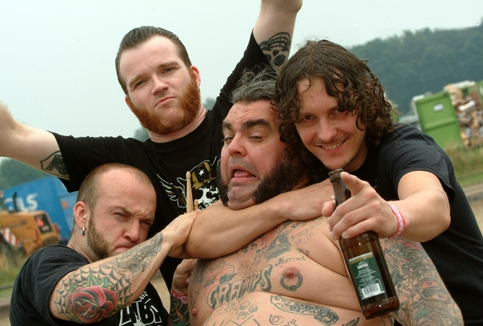 Peter Pan Speedrock in 2005, with mascotte Dikke Dennis.